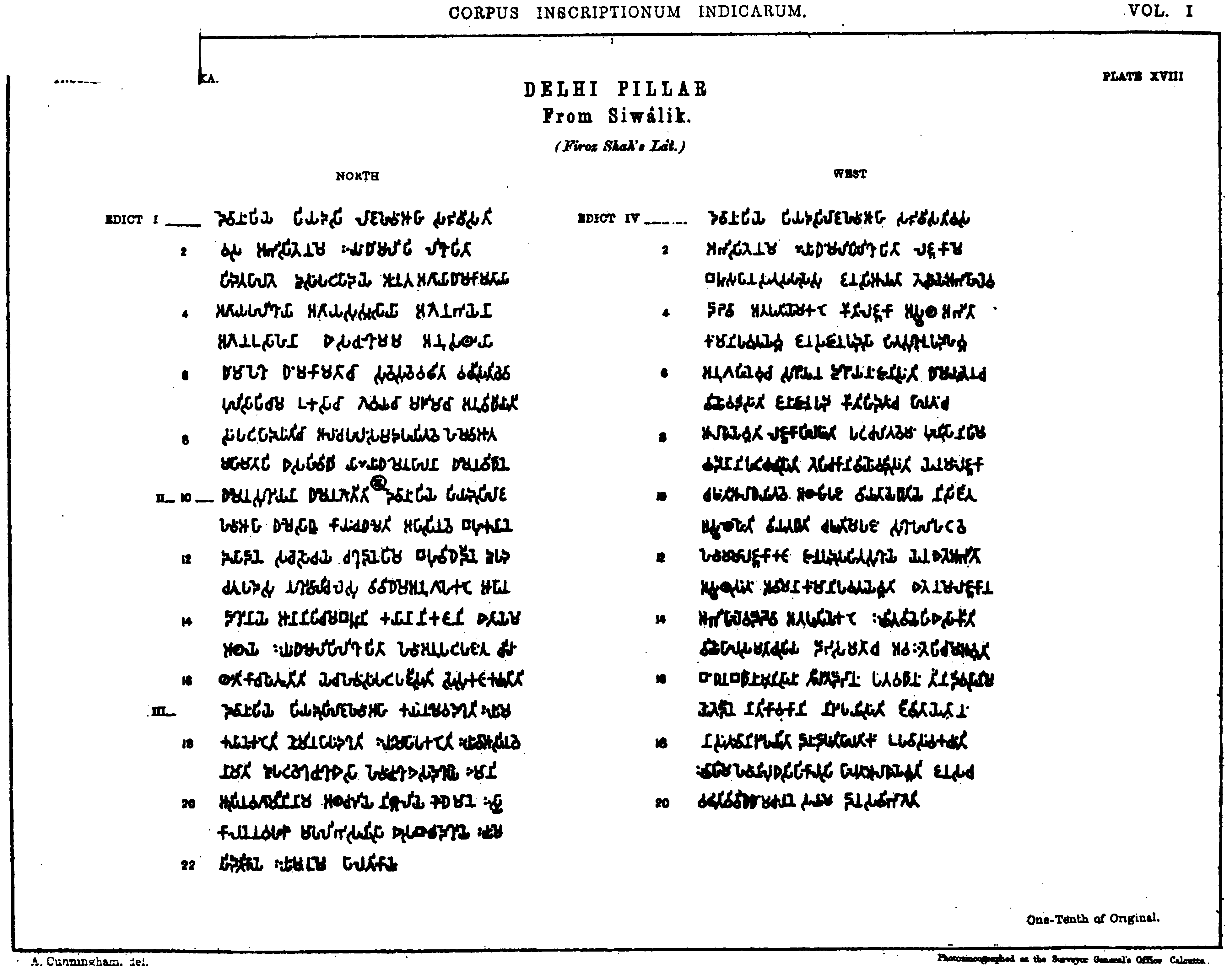 Ashoka's Pillar Edict at Delhi.